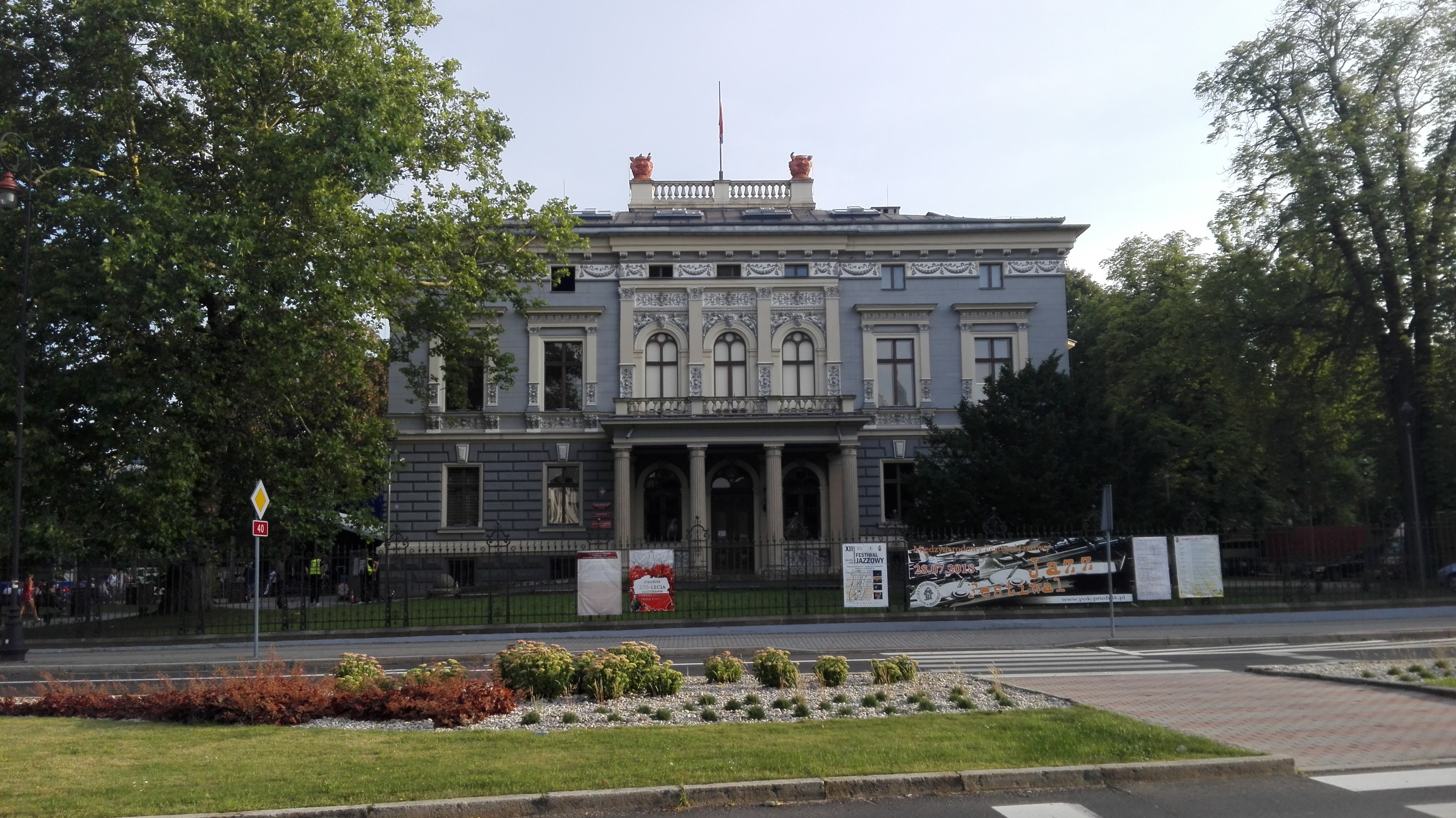 1A Tadeusza Kościuszki Street in Prudnik 03.1976.